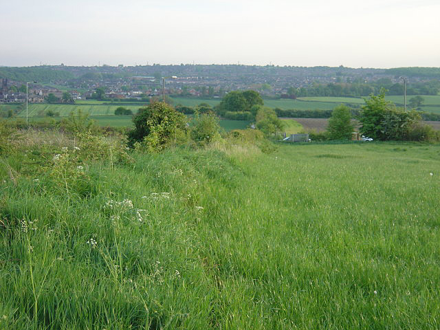 Roman Ridge The line of this earthwork can be seen curving slightly left across the countryside towards Greasbrough. See Wikipedia Roman_Ridge for more information.